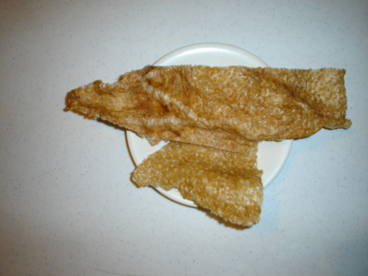 CHICHARRON